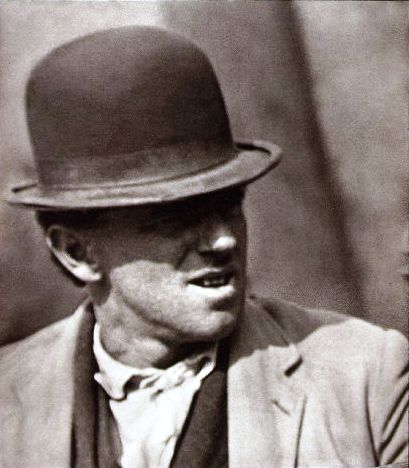 (A man wearing a brown bowler/derby hat in 1916)